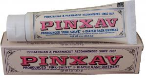 Picture of Pinxav ointment and its container